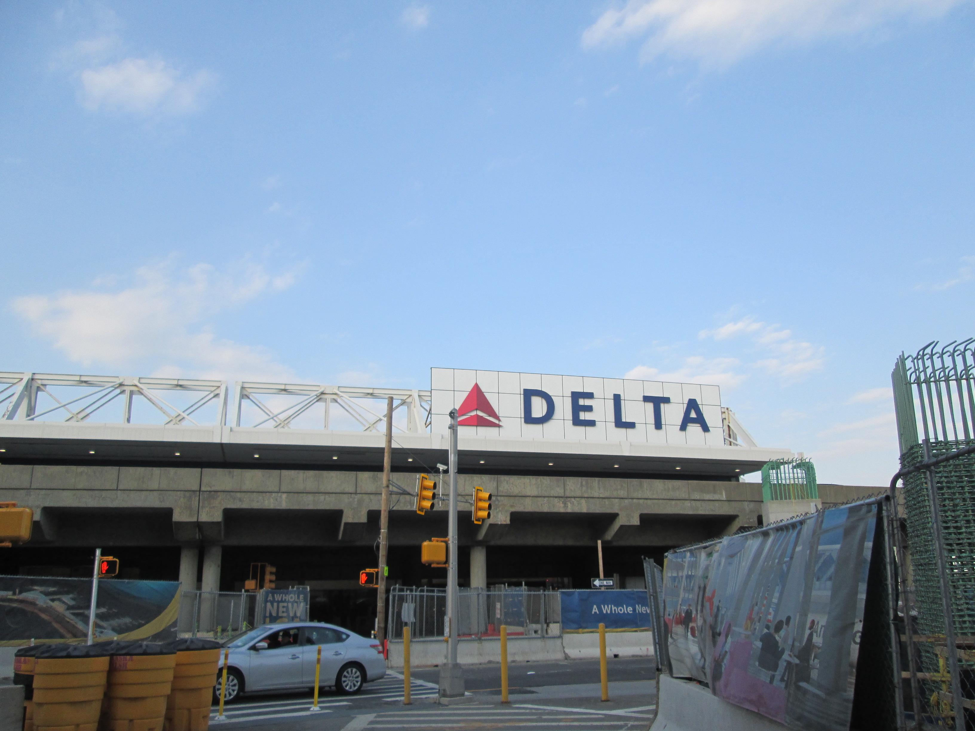 LaGuardia Airport, seen in April 2018